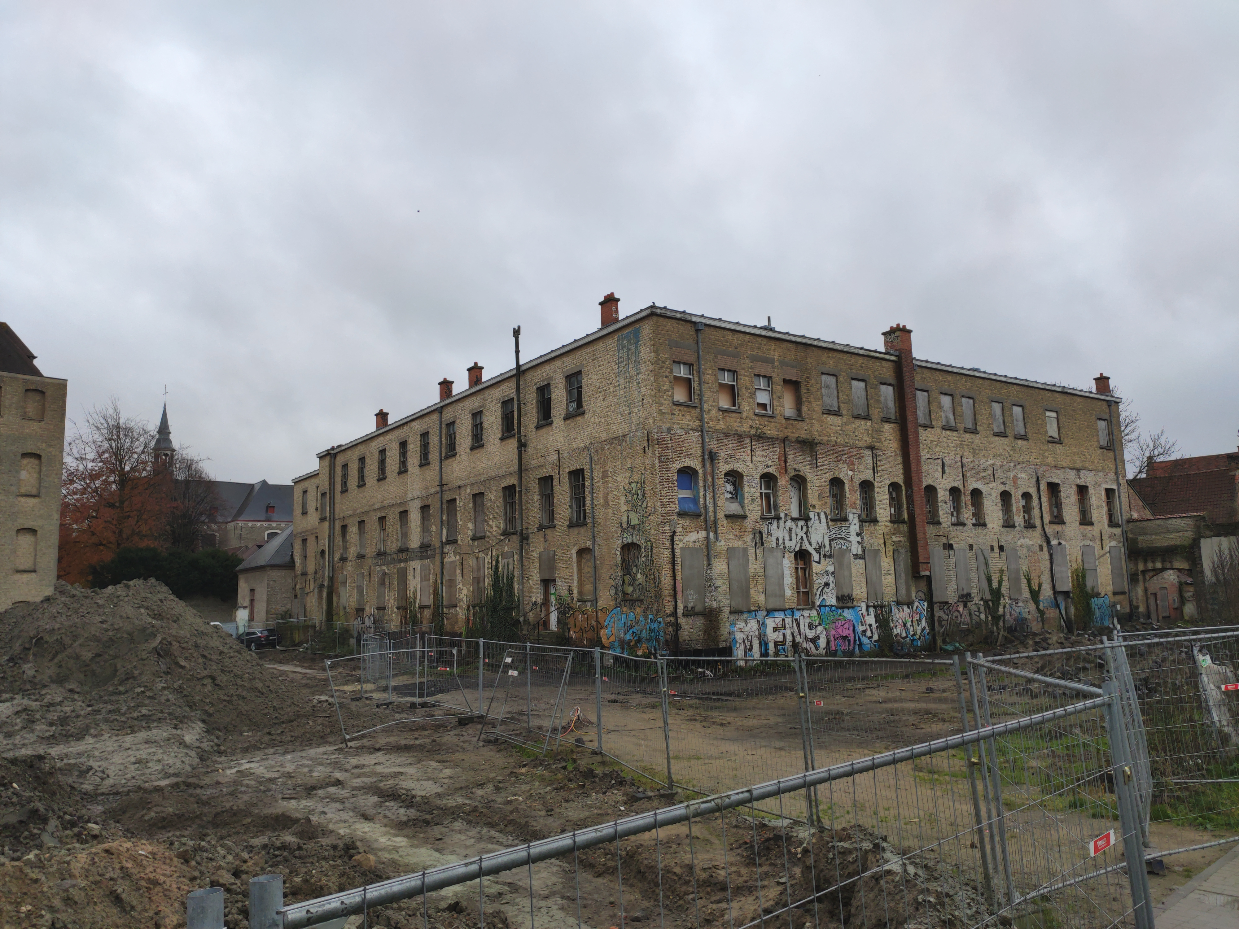 barracks